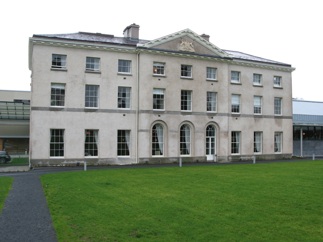 Farnham Estate Hotel, Farnham , County Cavan This former stately home and 1300 acre estate was owned by the Farnham Family until 2001. Its now a hotel, houses are also being built on the estate.